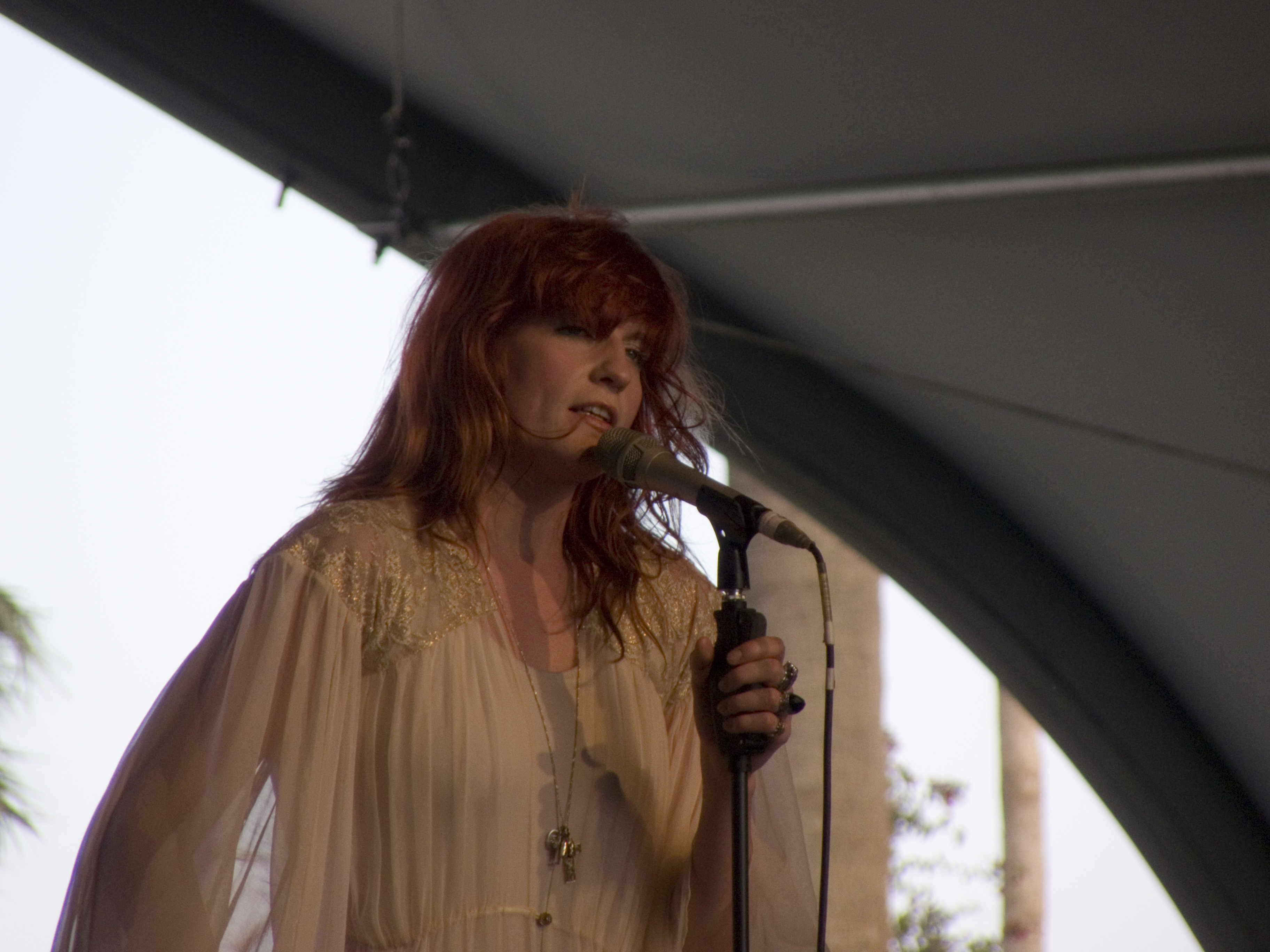 Florence and the Machine